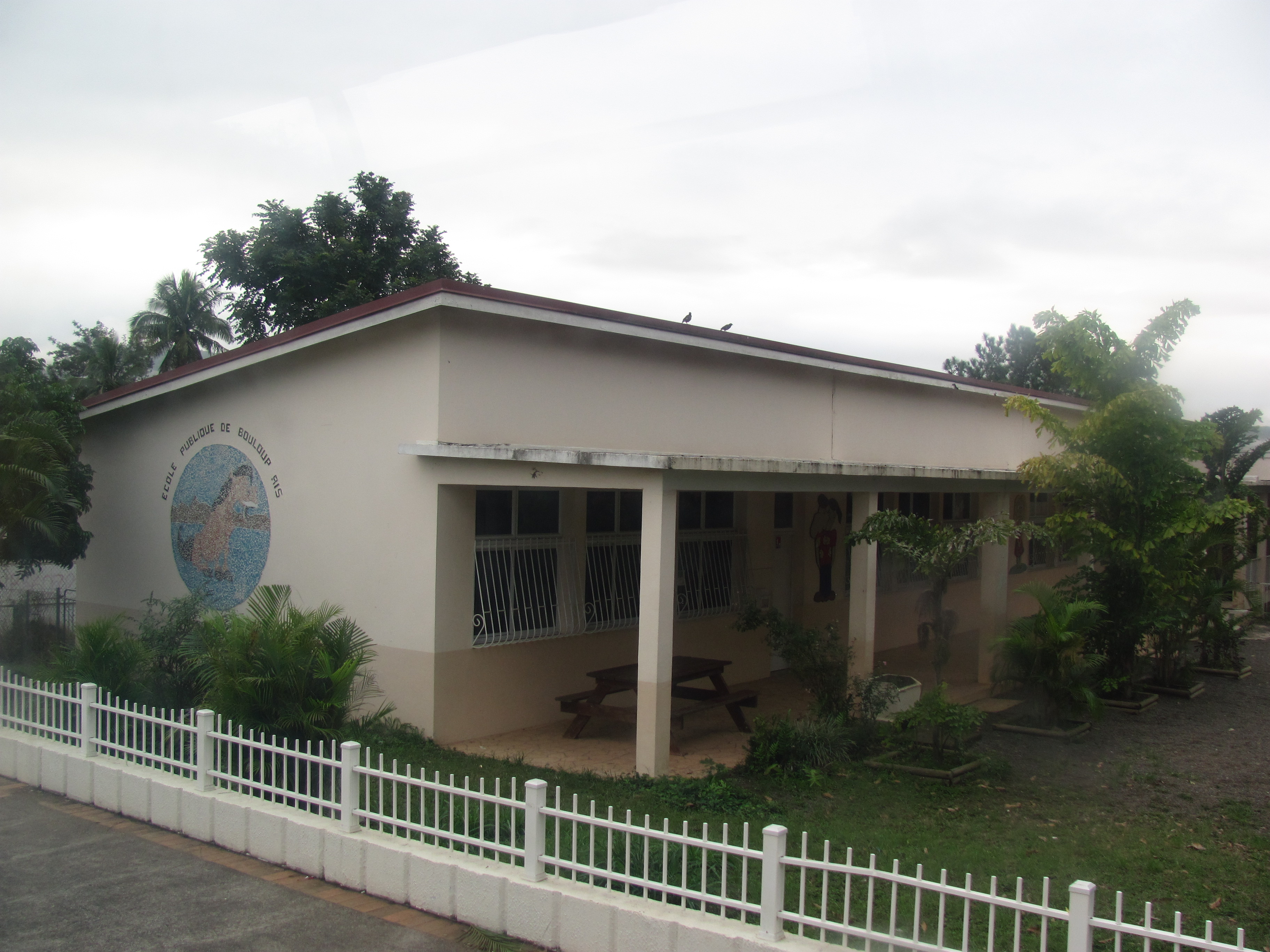 School, Boulouparis, New Caledonia